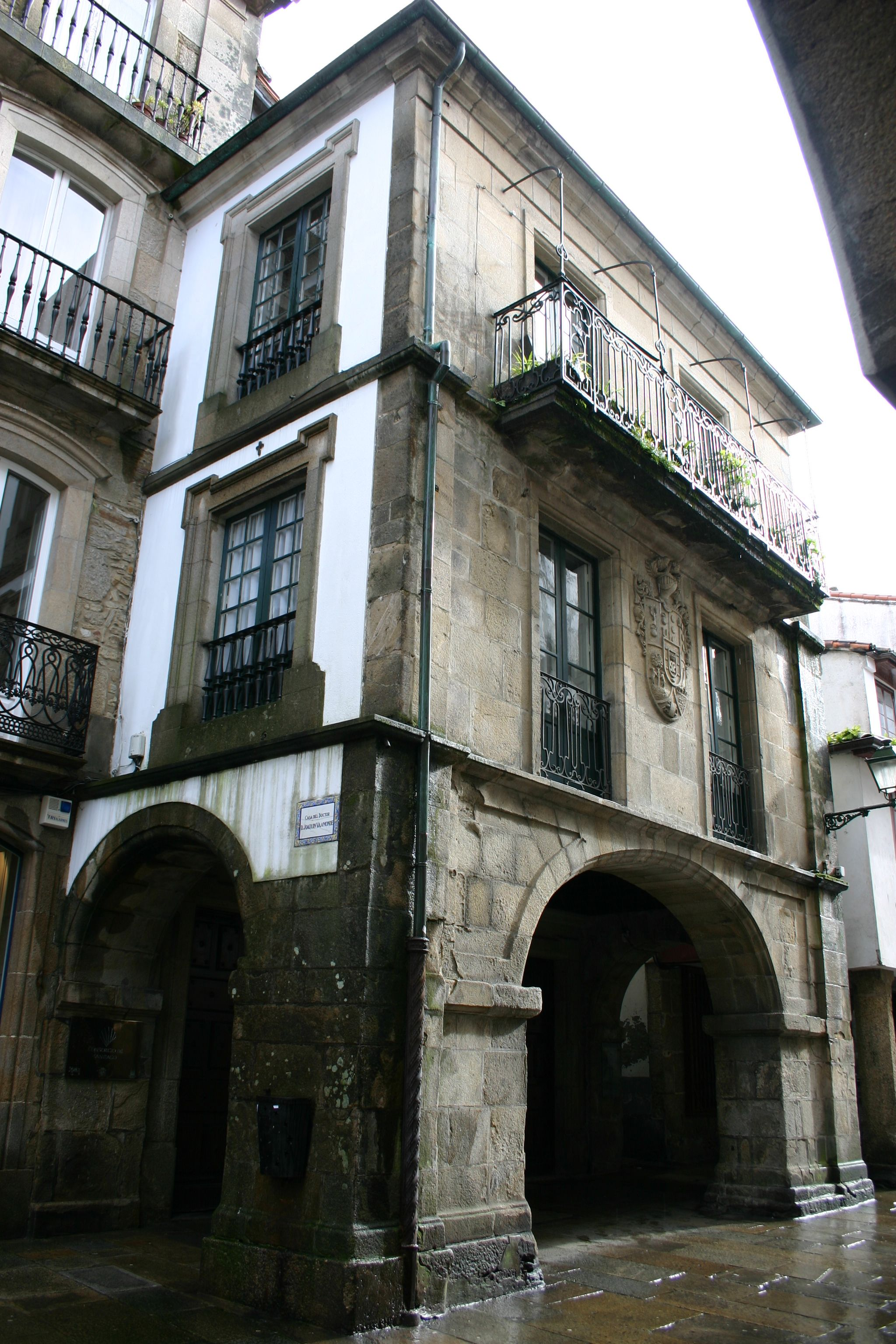 Vaamonde palace in Santiago de Compostela, Galicia (Spain). Author: User:Yearofthedragon Notes: Rúa do Vilar, 59. S. XVIII.